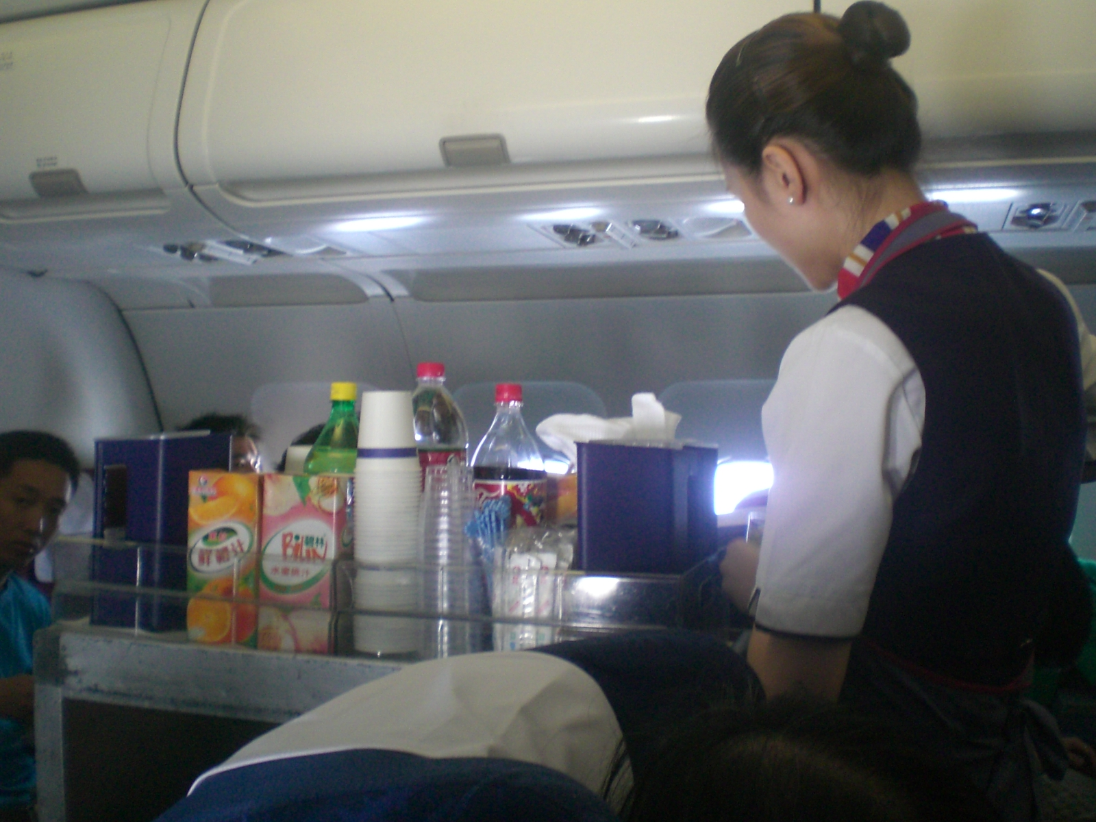 China Eastern Airlines aircraft cabin